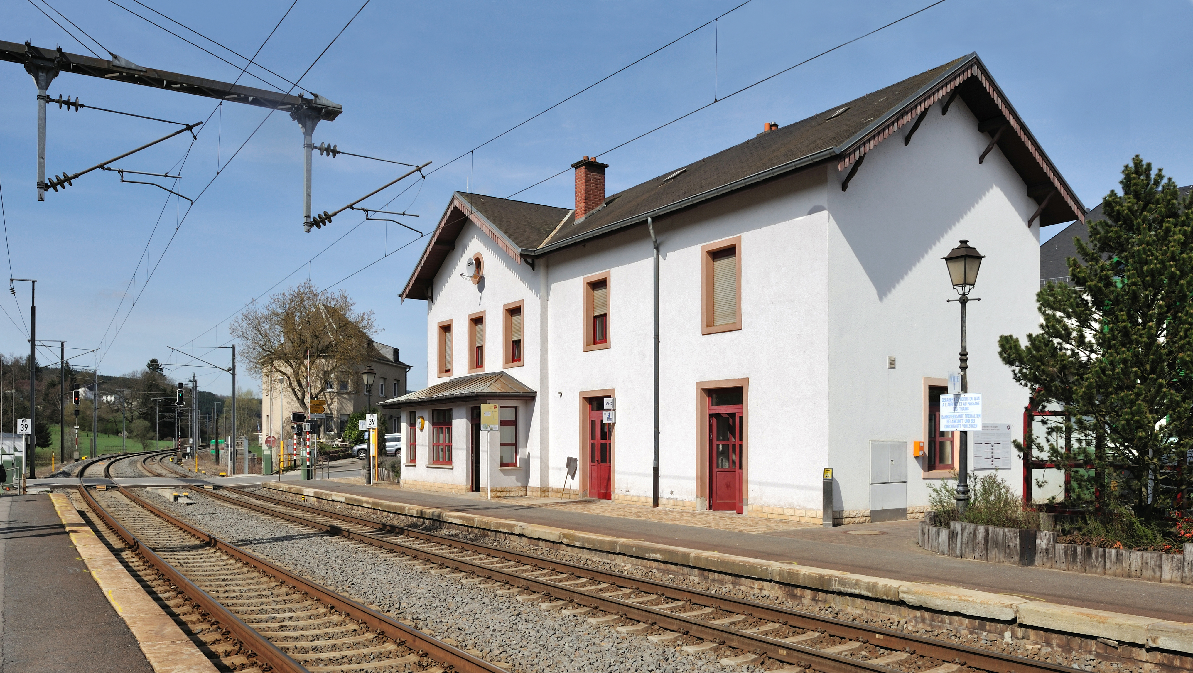 Luxembourg: Railway station at Wilwerwiltz in 2011.